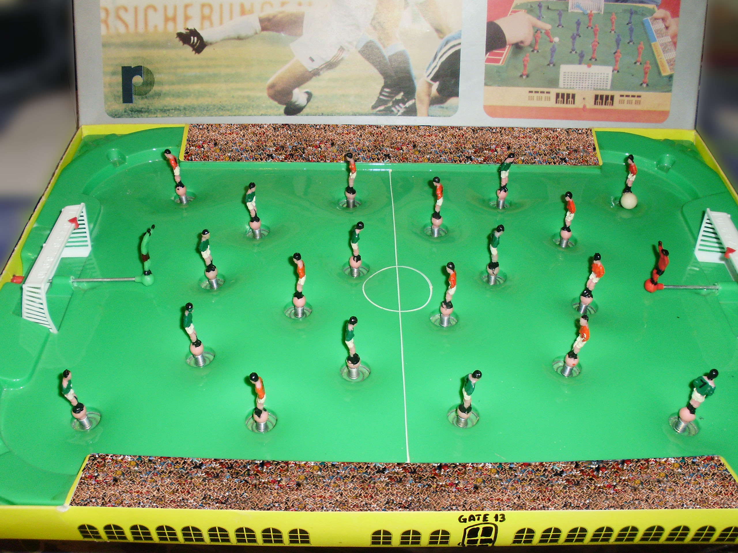 80's table soccer